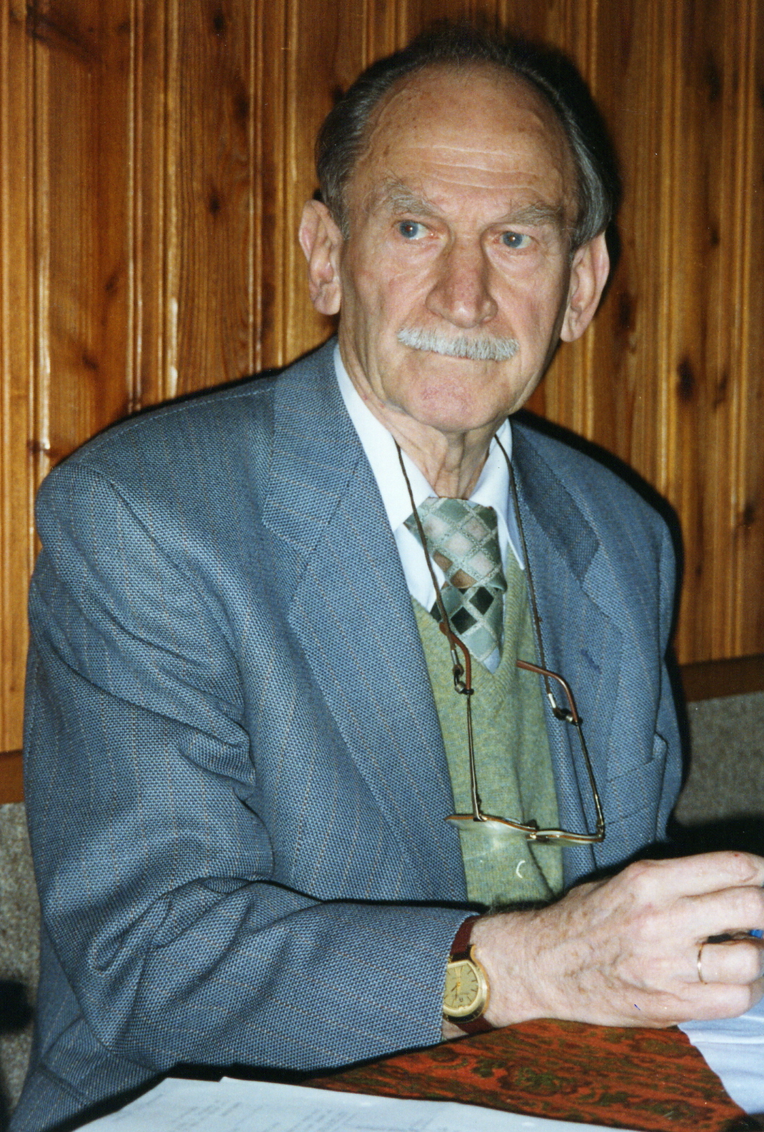 31. Erfahrungsaustausch - Meeting to exchange experiences, Vienna 1995